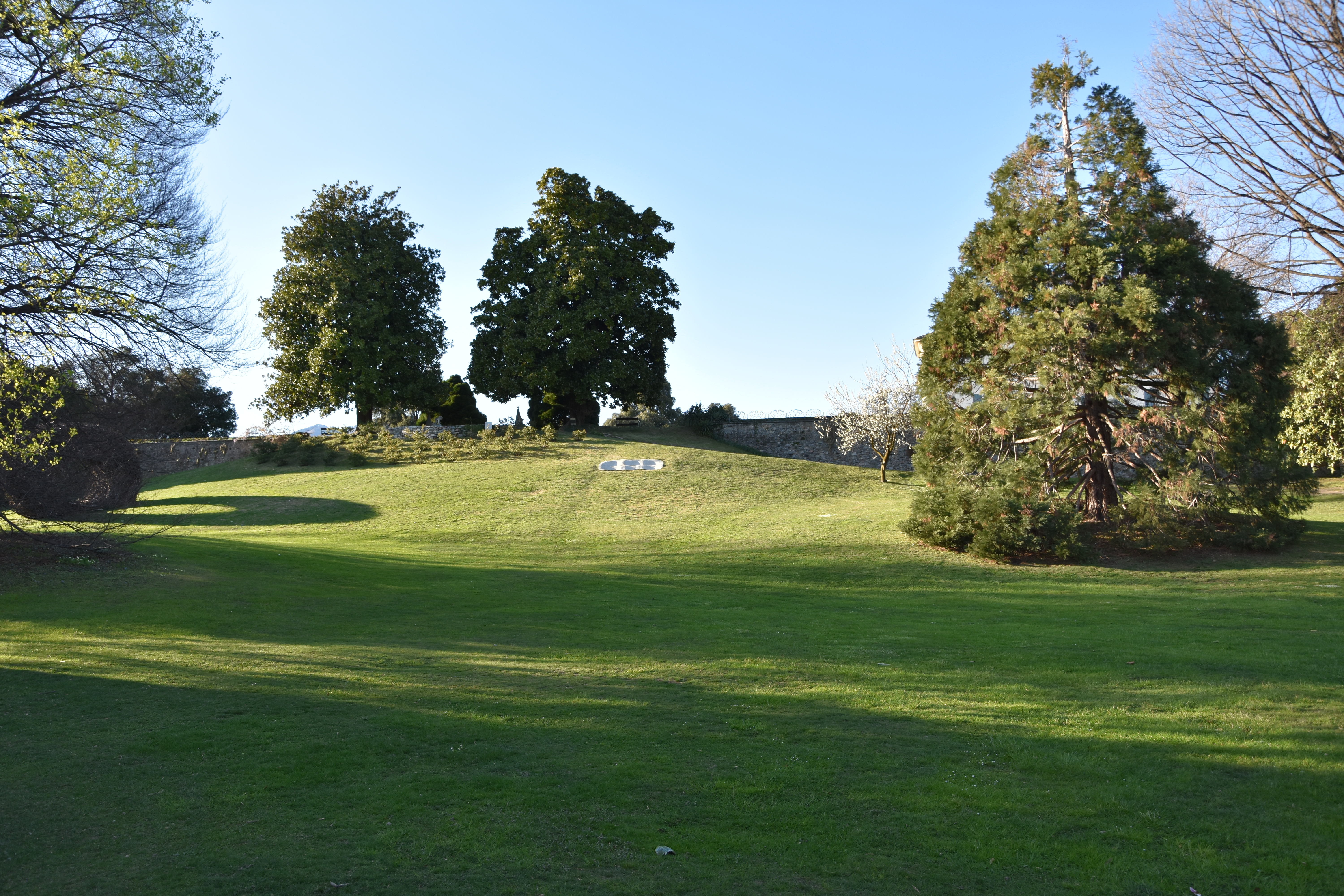 Villa Panza in Varese, Italy.